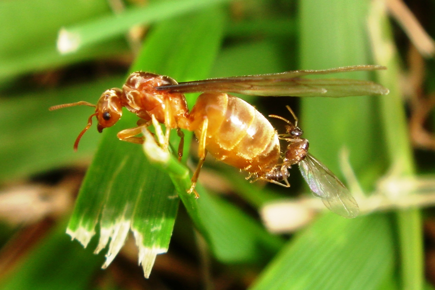 flying ants, mating on a blade of grass